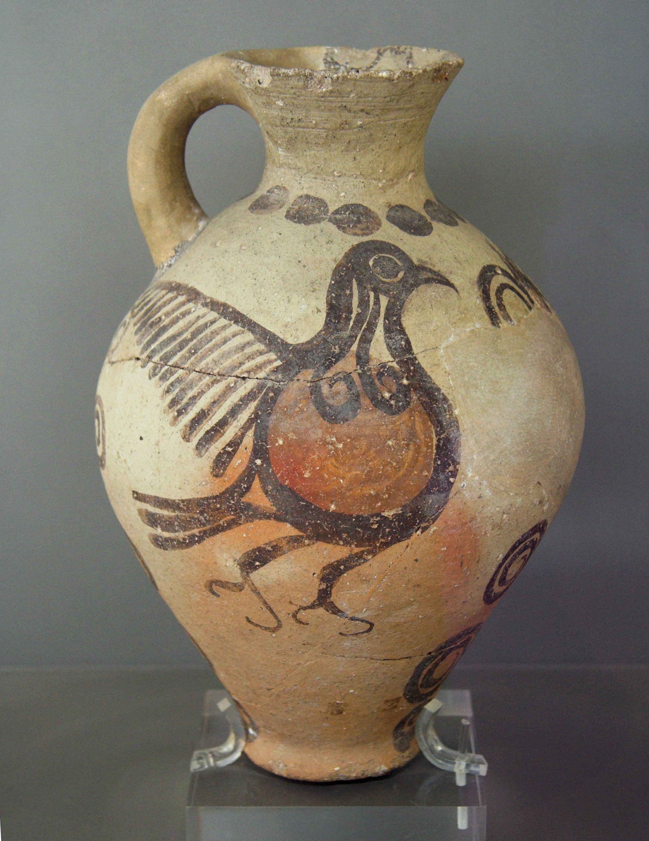 Clay Jug with a bord from Phylakopi on Melos, 16th century BC. National Archaeological Museum of Athens, Π 5762.